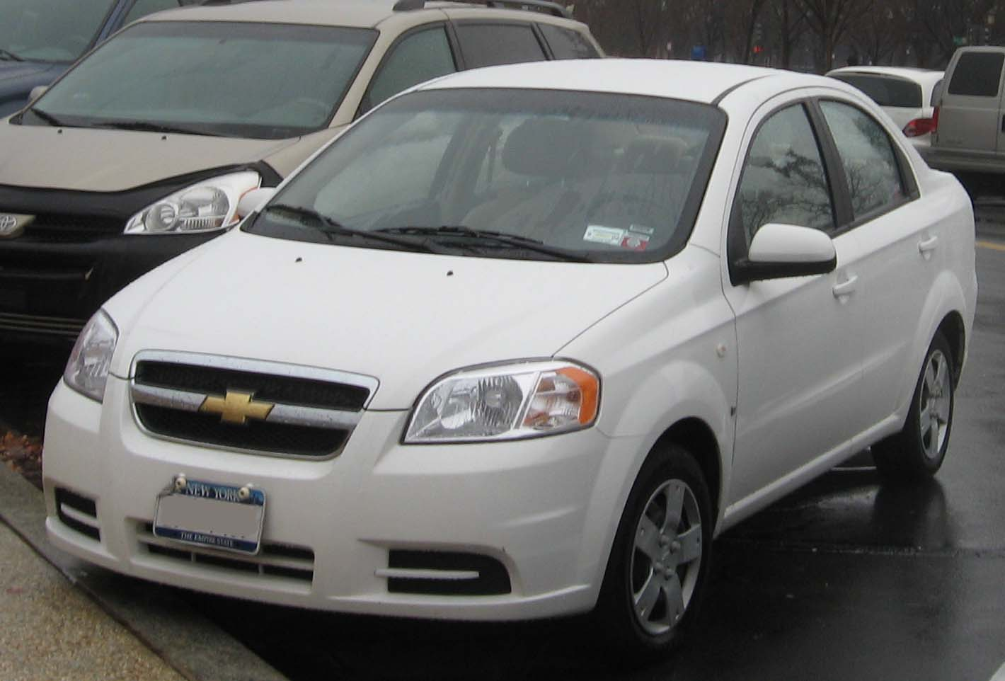 2007-2008 Chevrolet Aveo photographed in Washington, D.C., USA.